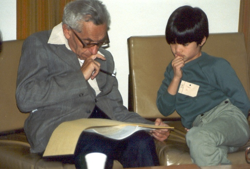 Paul Erdős teaching Terence Tao in 1985, at the University of Adelaide. At the time, Terence was 10 years old. Years later, Terence would grow to become one of the greatest Mathematicians alive. Terence Tao received the Fields Medal in 2006, and was elected a Fellow of the Royal Society in 2007.